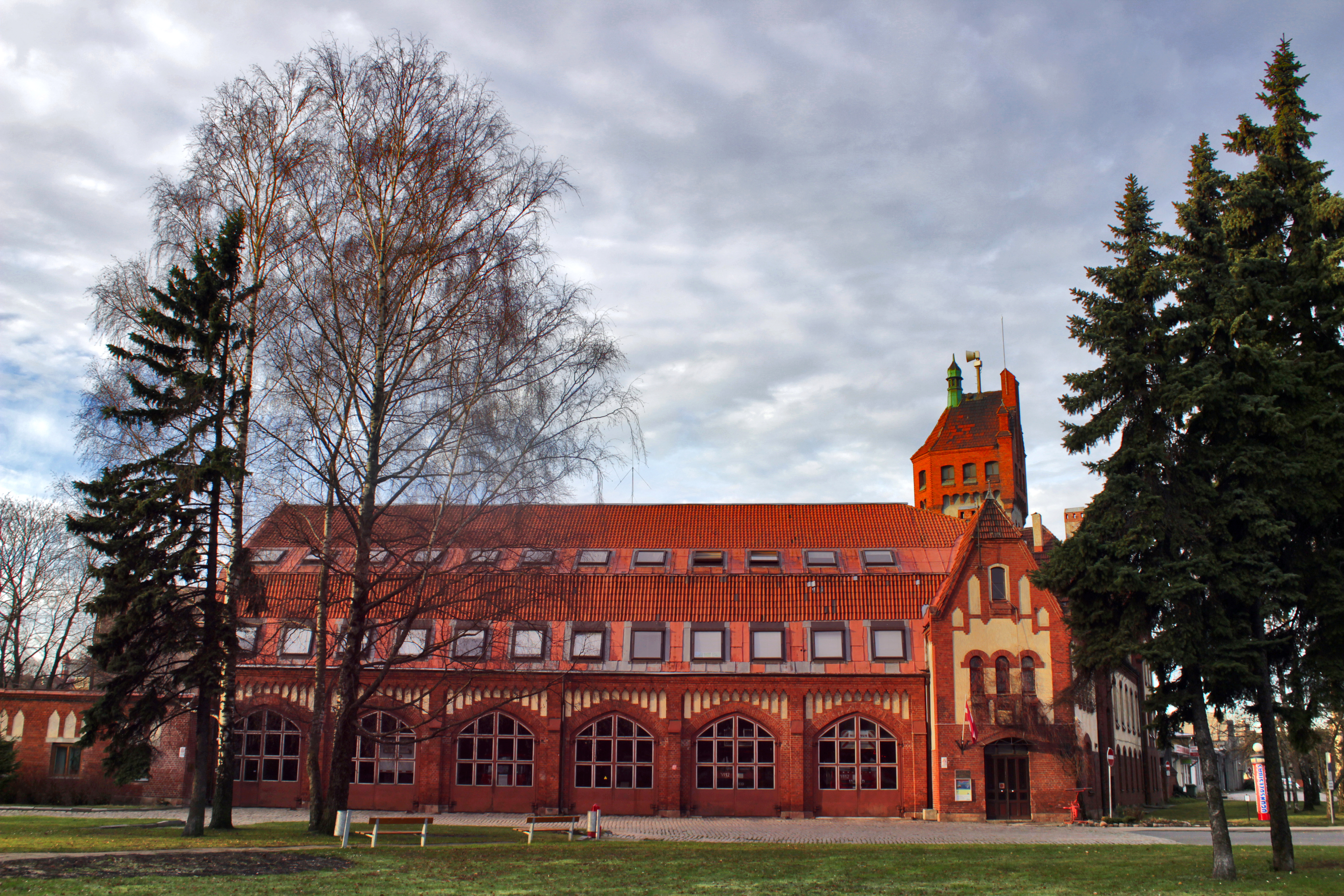 Fire fighting museum